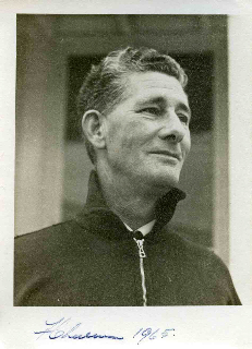 British football coach Fred Cheesmur